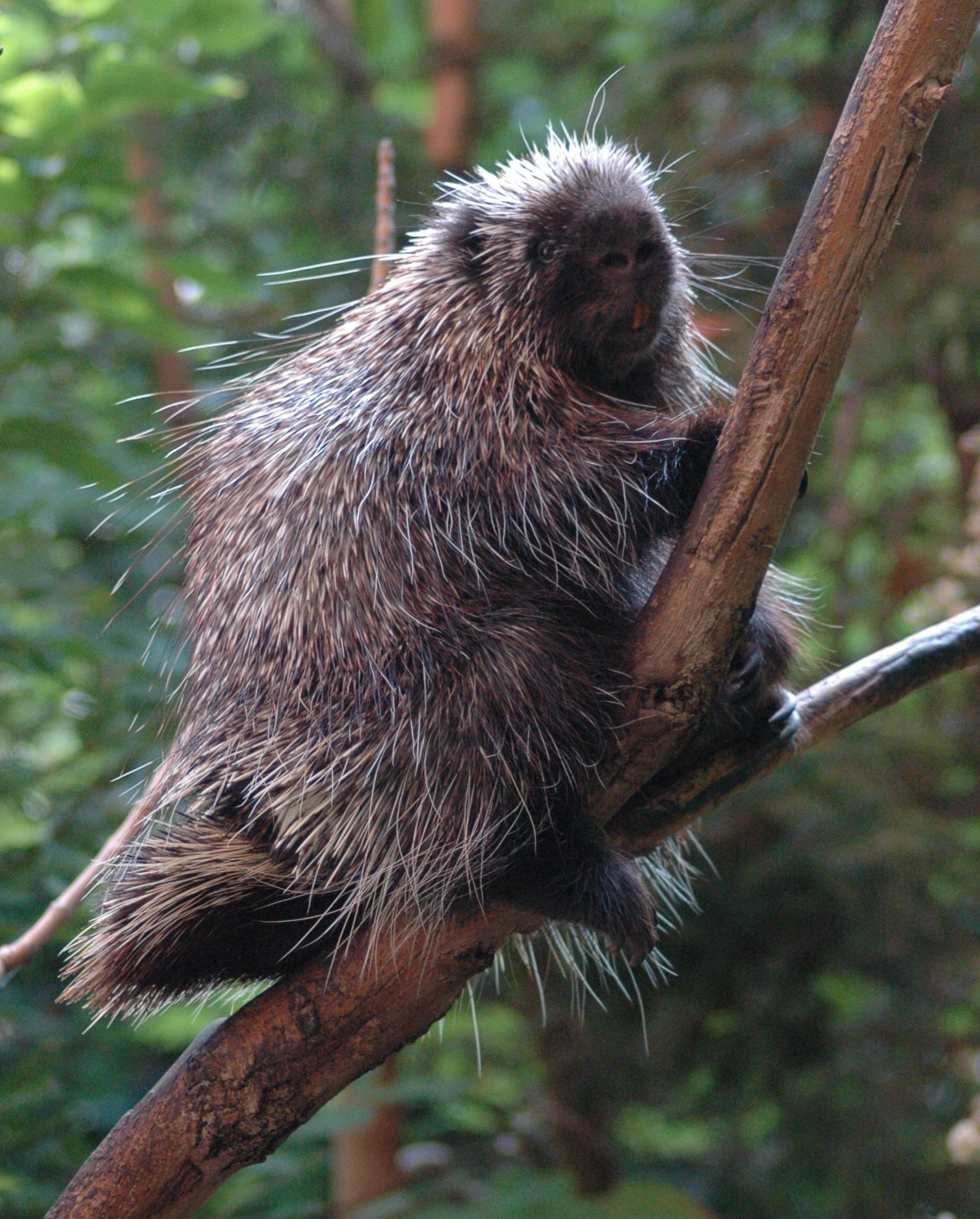 A North American porcupine (Erethizon dorsatum) rests in a tree in Montreal's BioDome.